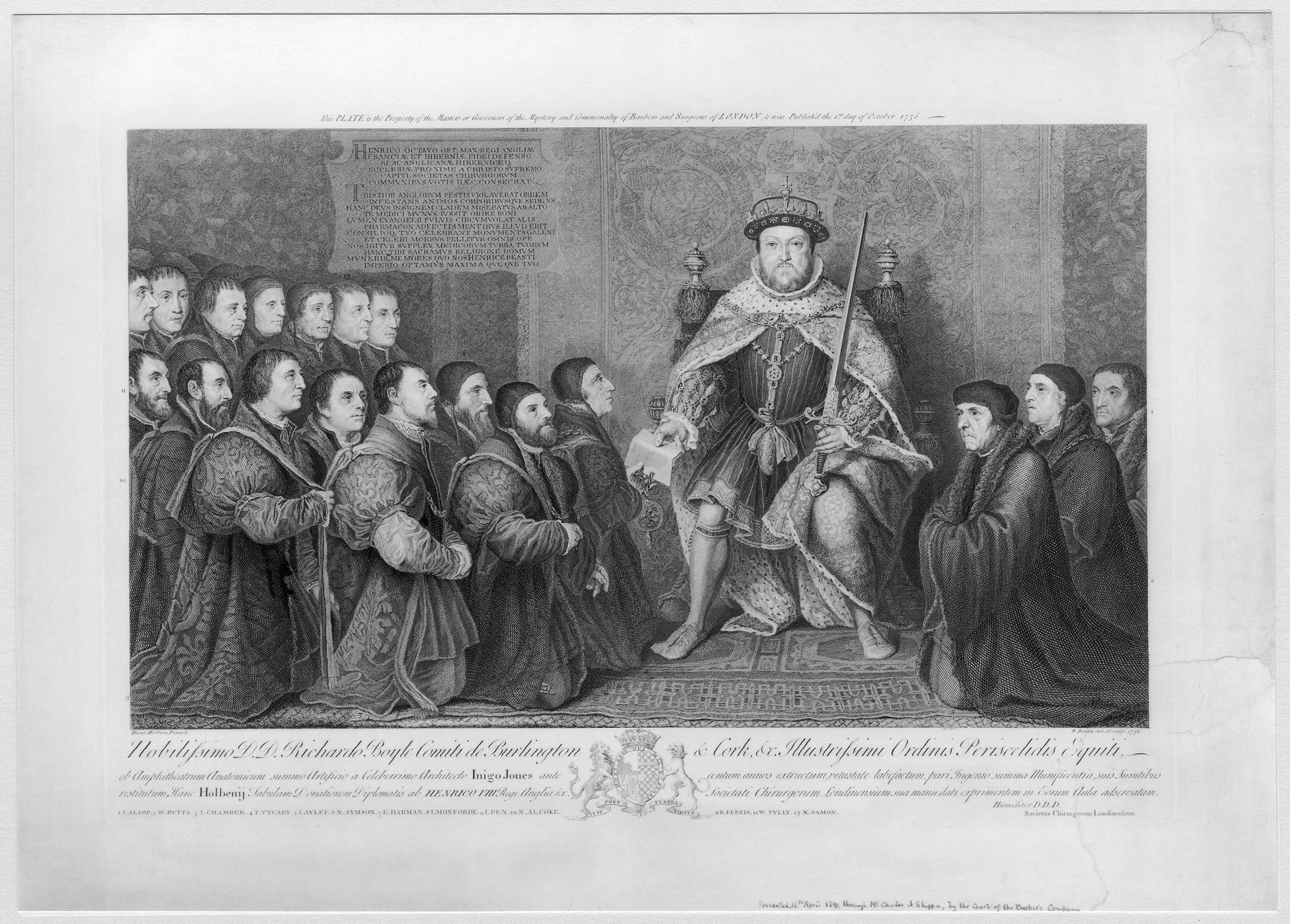 given to the National Portrait Gallery, London in 1891. All images in this batch have been confirmed as author died before 1939 according to the official death date listed by the NPG.